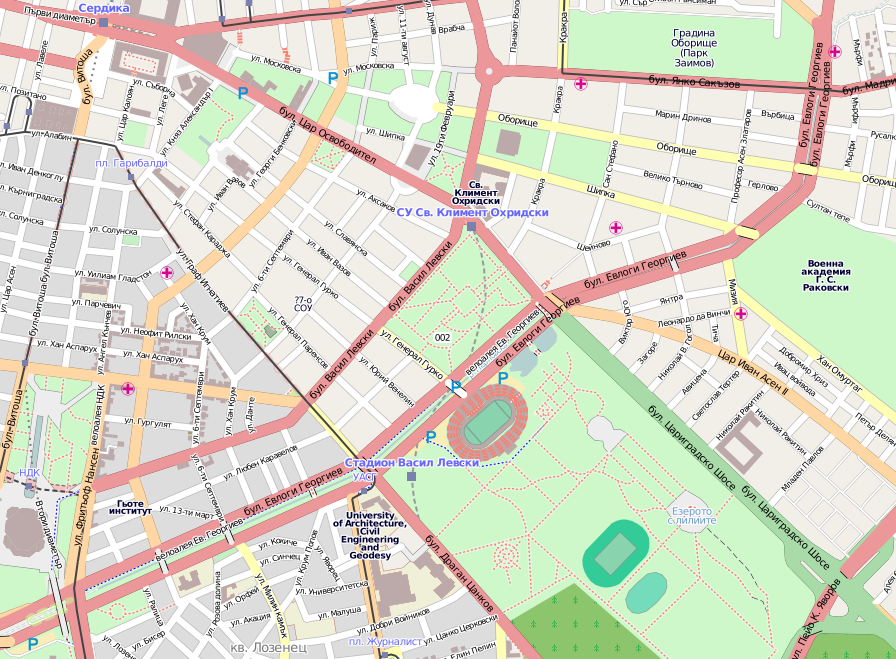 Sofia: Evlogi Georgiev Boulevard